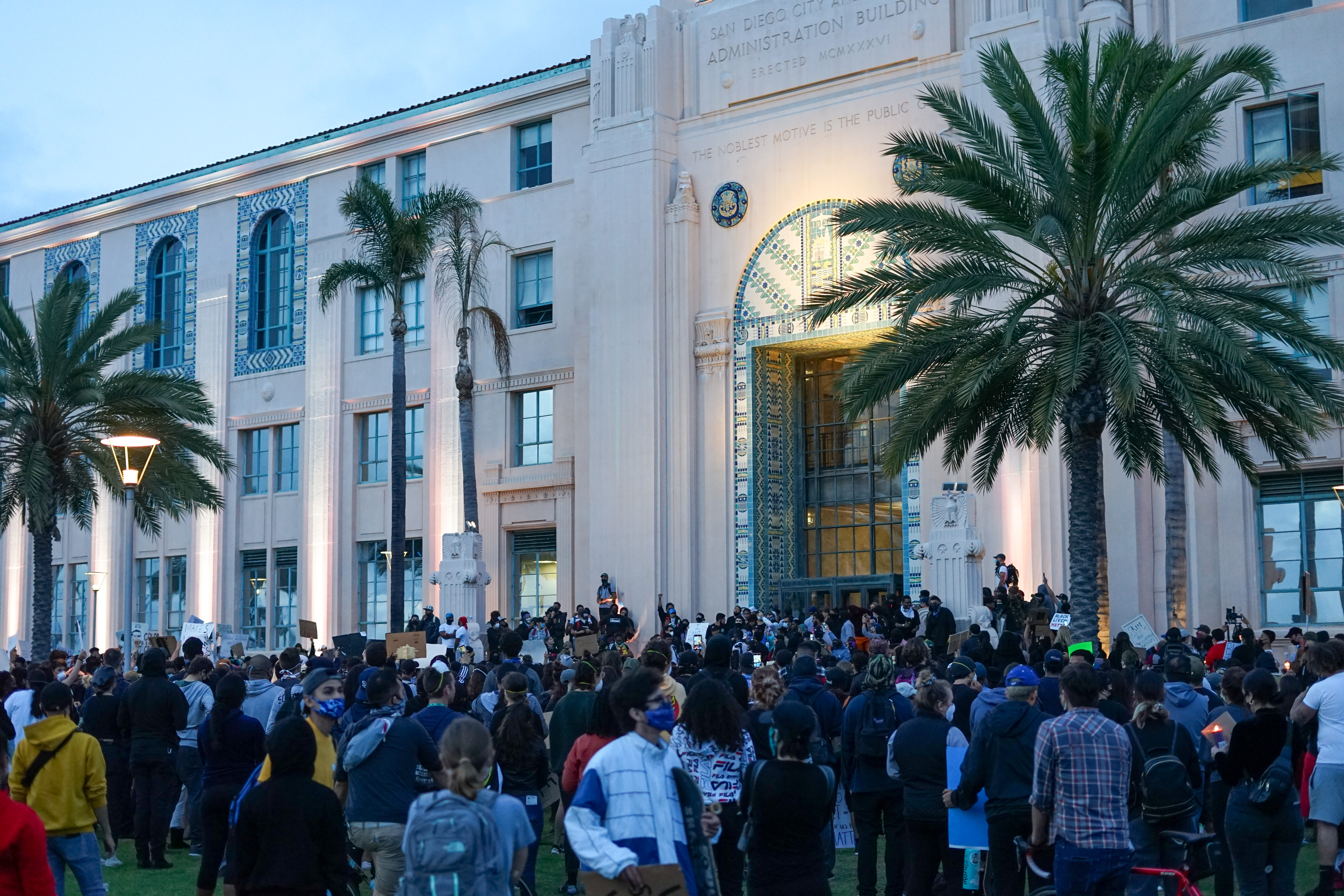 Black Lives Matter / George Floyd protest in San Diego, California on May 31, 2020